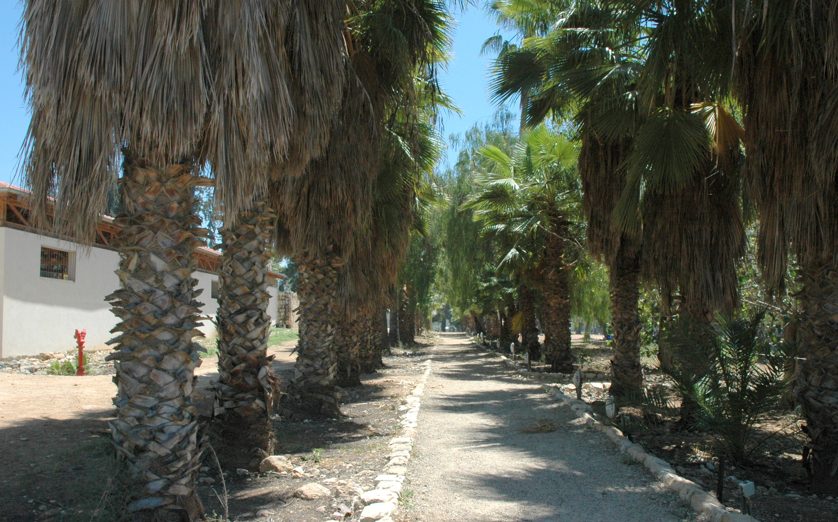 Avenue of palm trees, Kibbutz Hulda, Israel